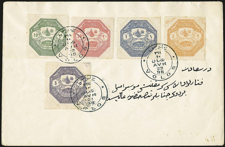 1898 during the Greco-Turkish War 1897-1898, a set of eight-sided stamps were issued for use by the Turkish Army during the occupation of the Greek State of Thessaly. These stamps were eventually used in 13 cities: Bababogazi, Domakos, Halmiros, Kalabaka, Kardice, Larissa, Phanari, Pharsala, Tournavos, Trikhala, Velestin and Volos. The cover shown was used in Volos.